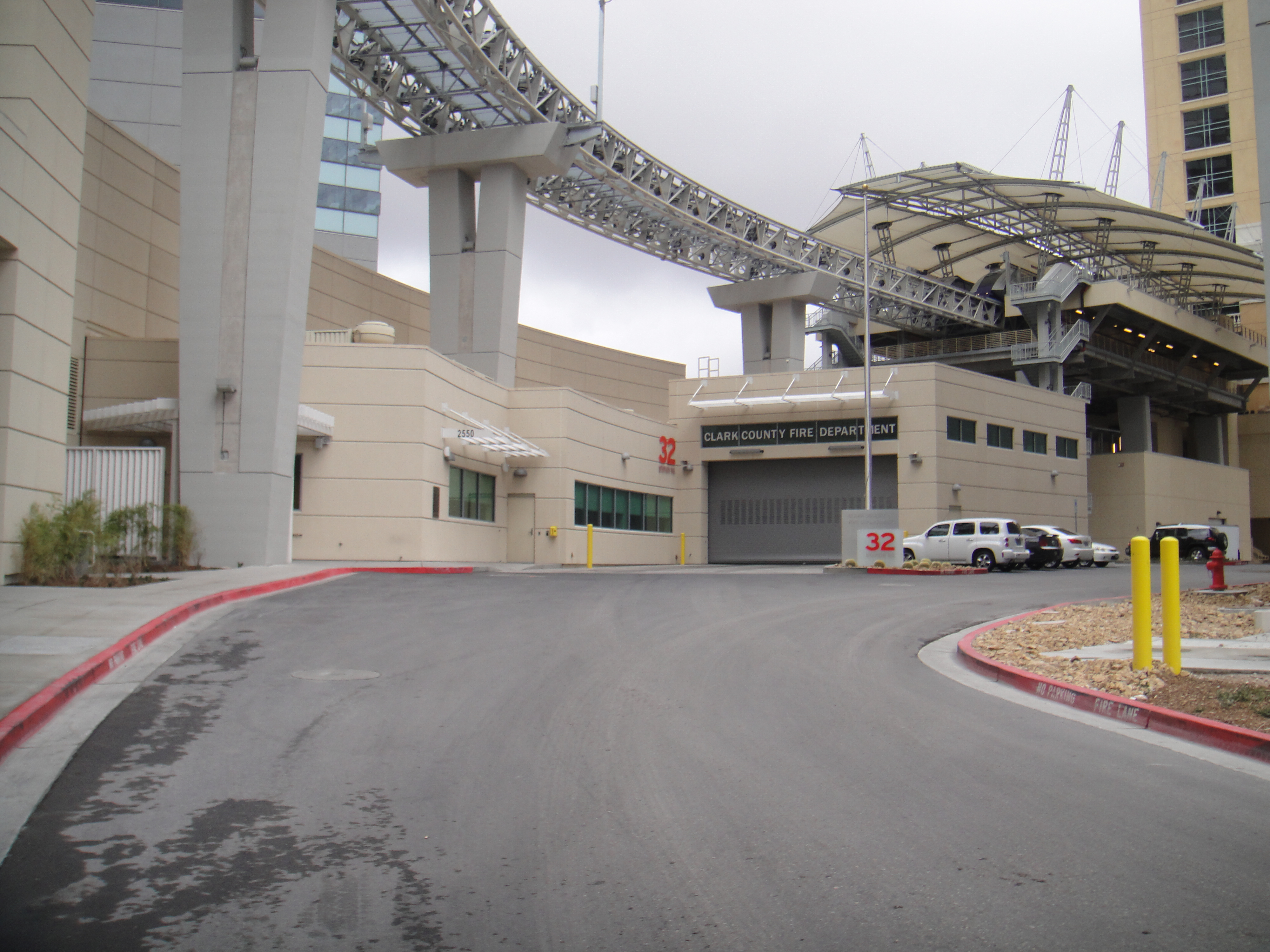 Photo of the Clark County Fire Station #32 located in the CityCenter development